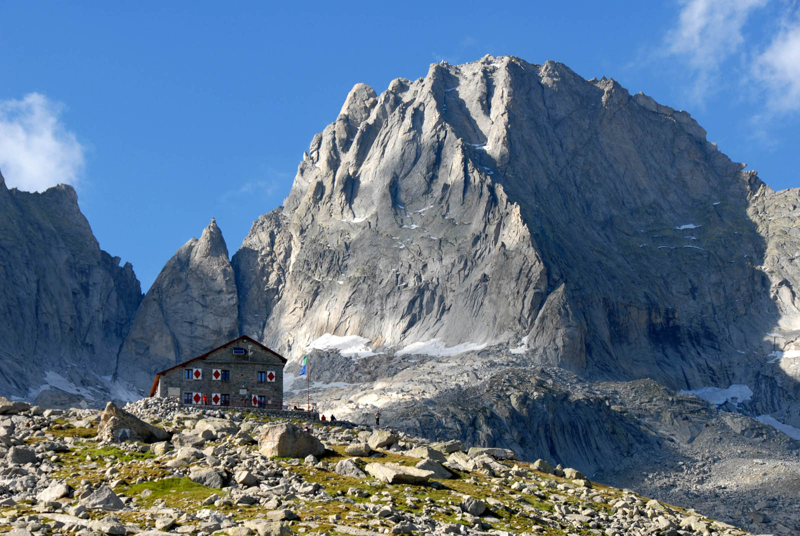 South slope of Pizzo Badile (3308mt - 9266 ft absl) - Alpi Retiche. Picture was taken while coming to Capanna Giannetti (2550 mt) here on the lowleft side of the shot.